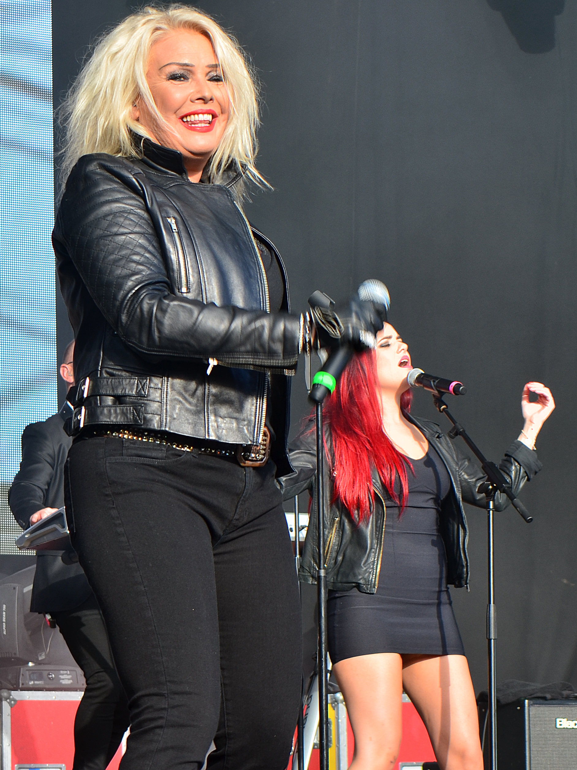 Kim Wilde performing in June 2014